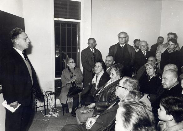 Opening night of the Givatayim Observatory